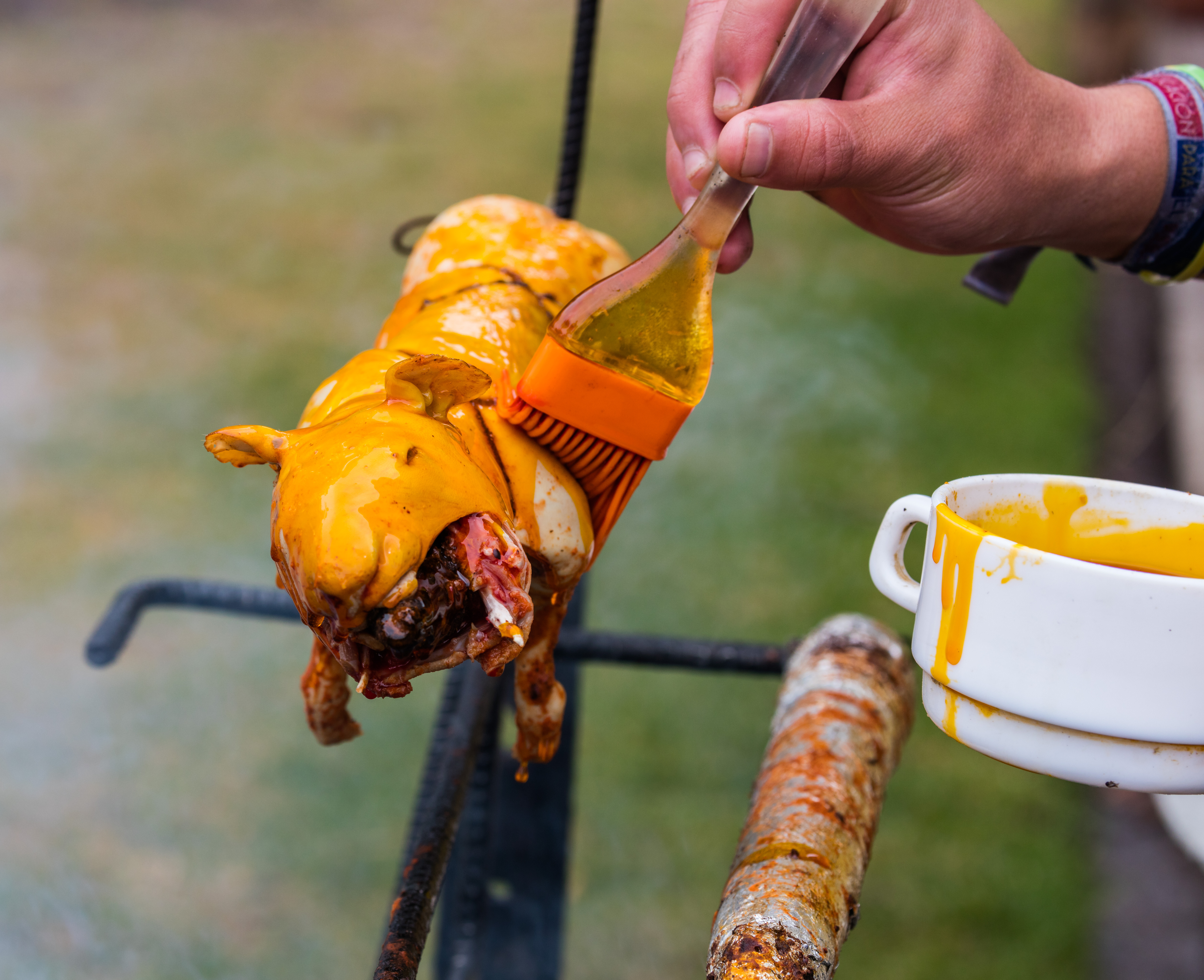 Cooking of Guinea pig (Cavia porcellus), Quito, Ecuador